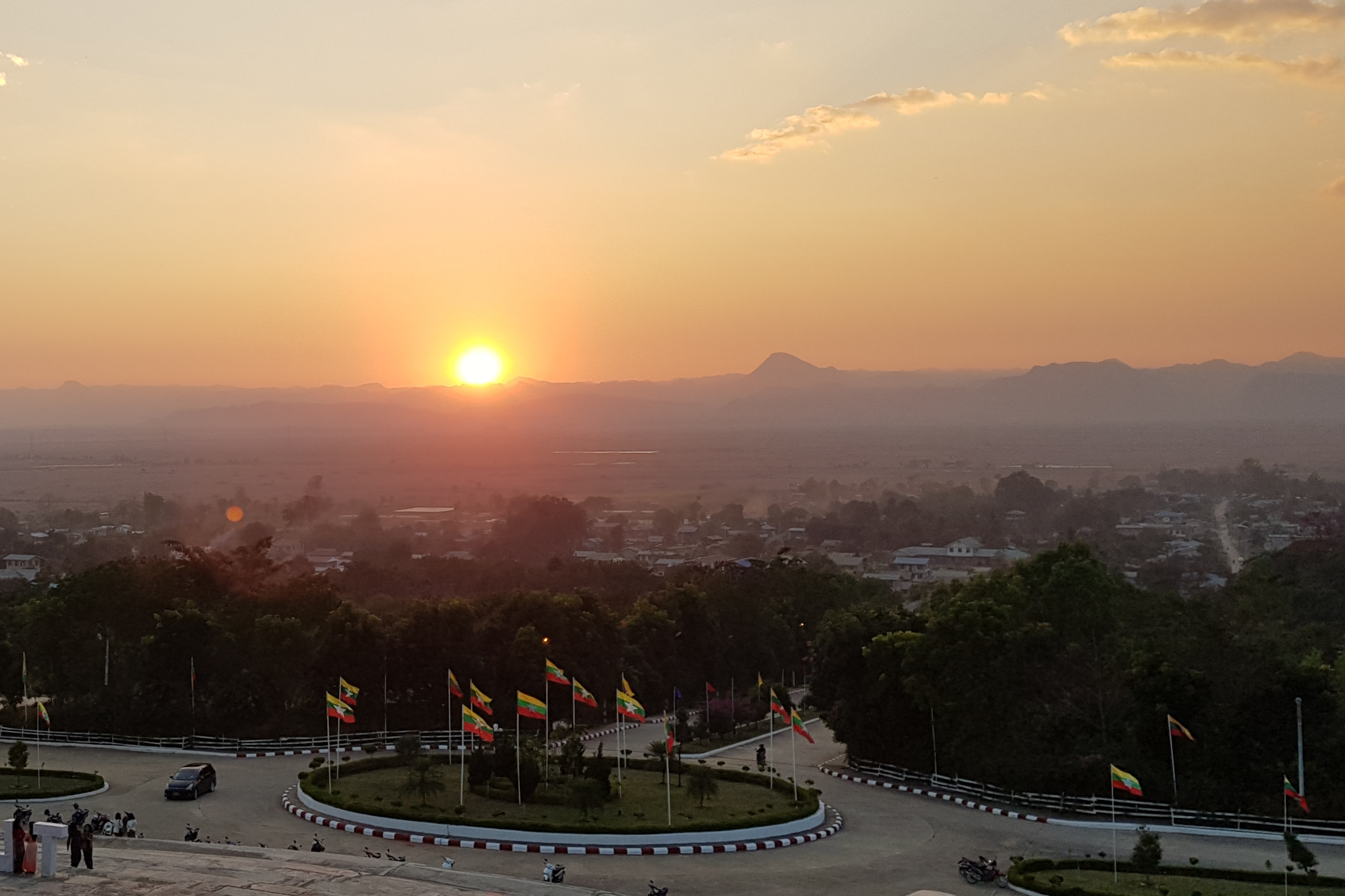 View of Loiklnanpha Hill from Loikaw Technological University.